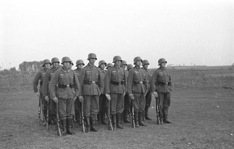 Warsaw during World War II